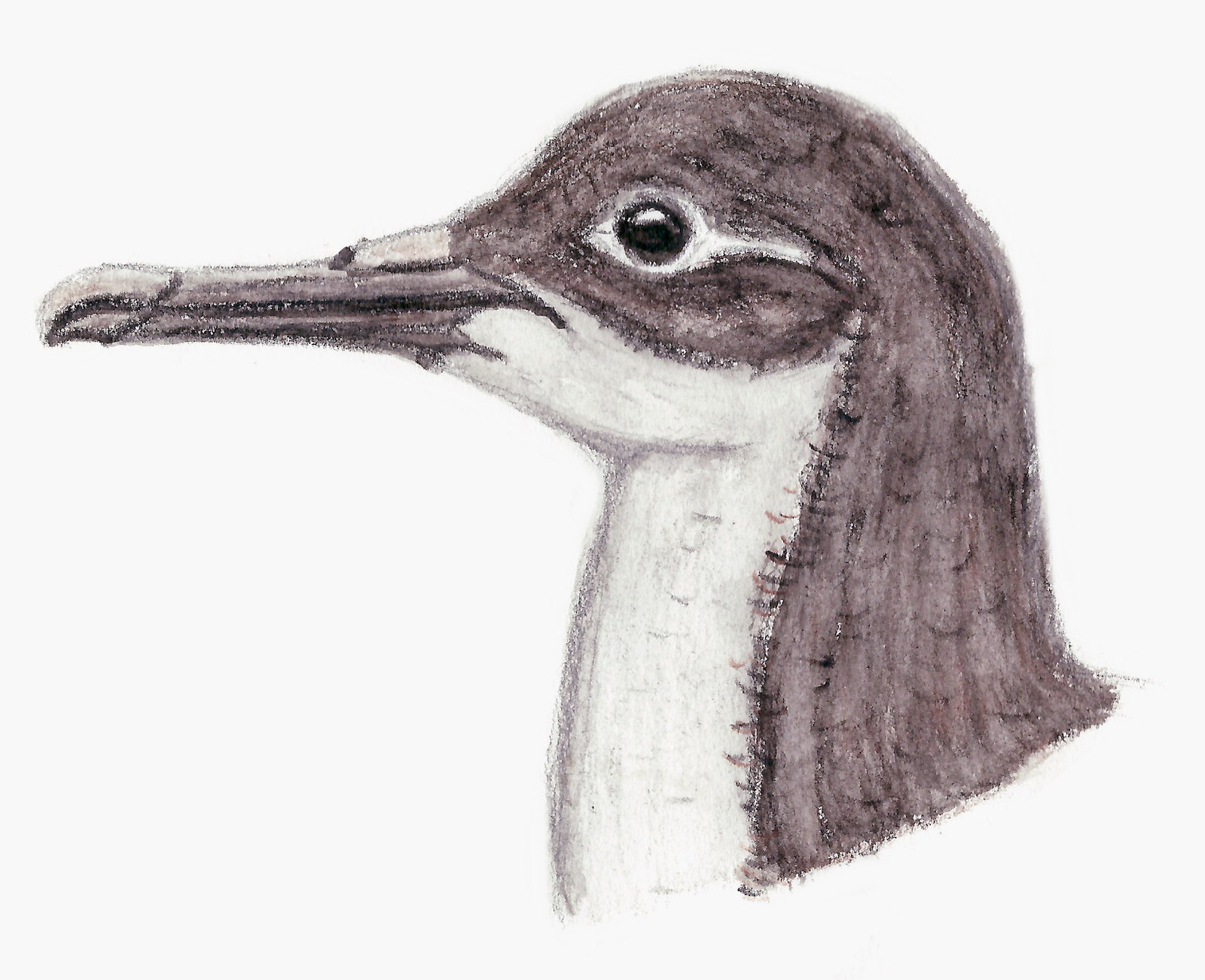 Life restoration of the dune shearwater (Puffinus holeae), a seabird that nested in the island of Lanzarote (Canary Islands) until the Middle Ages.